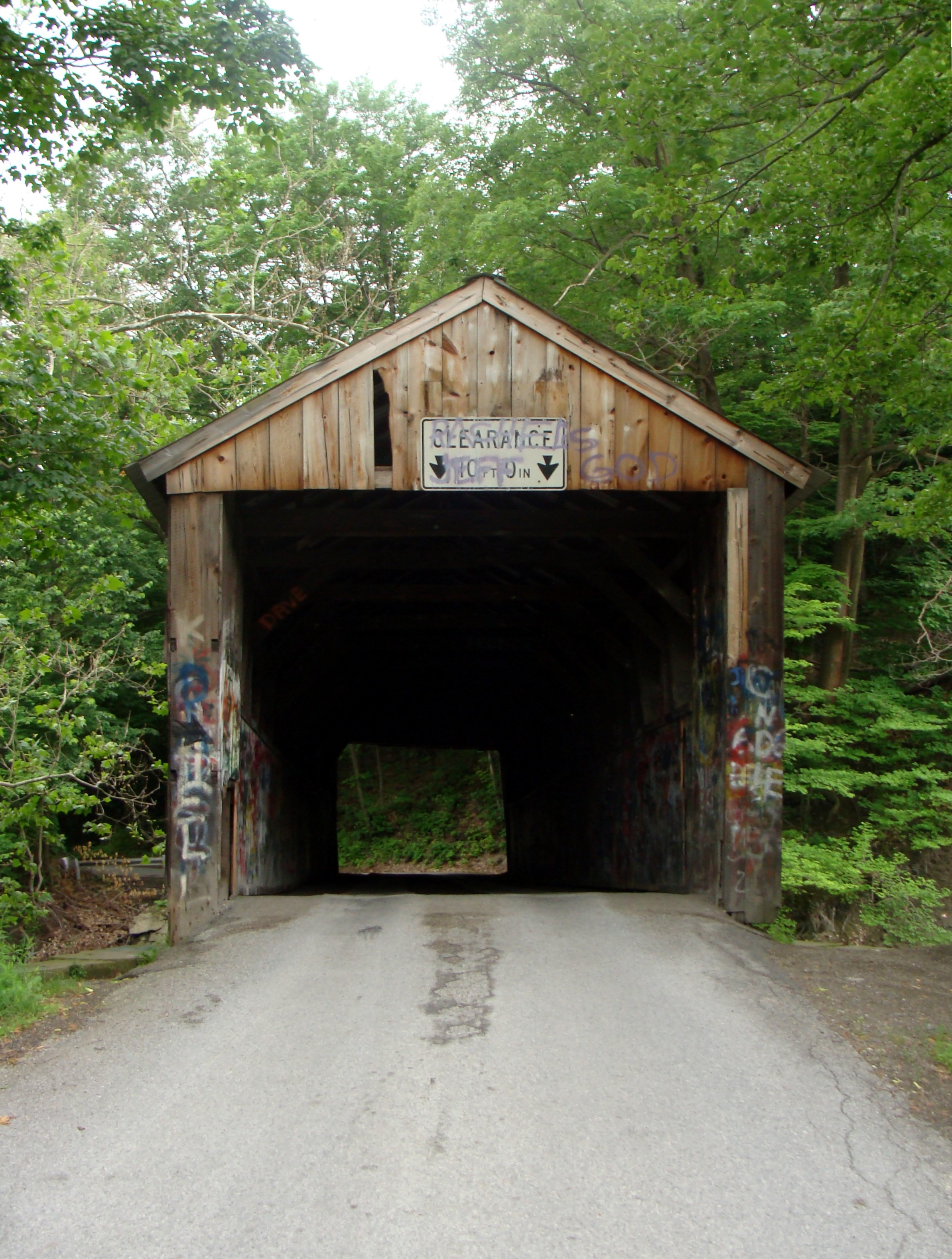 The north portal of the Gudgeonville Covered Bridge. The bridge was destroyed by arson on 8 November 2008.